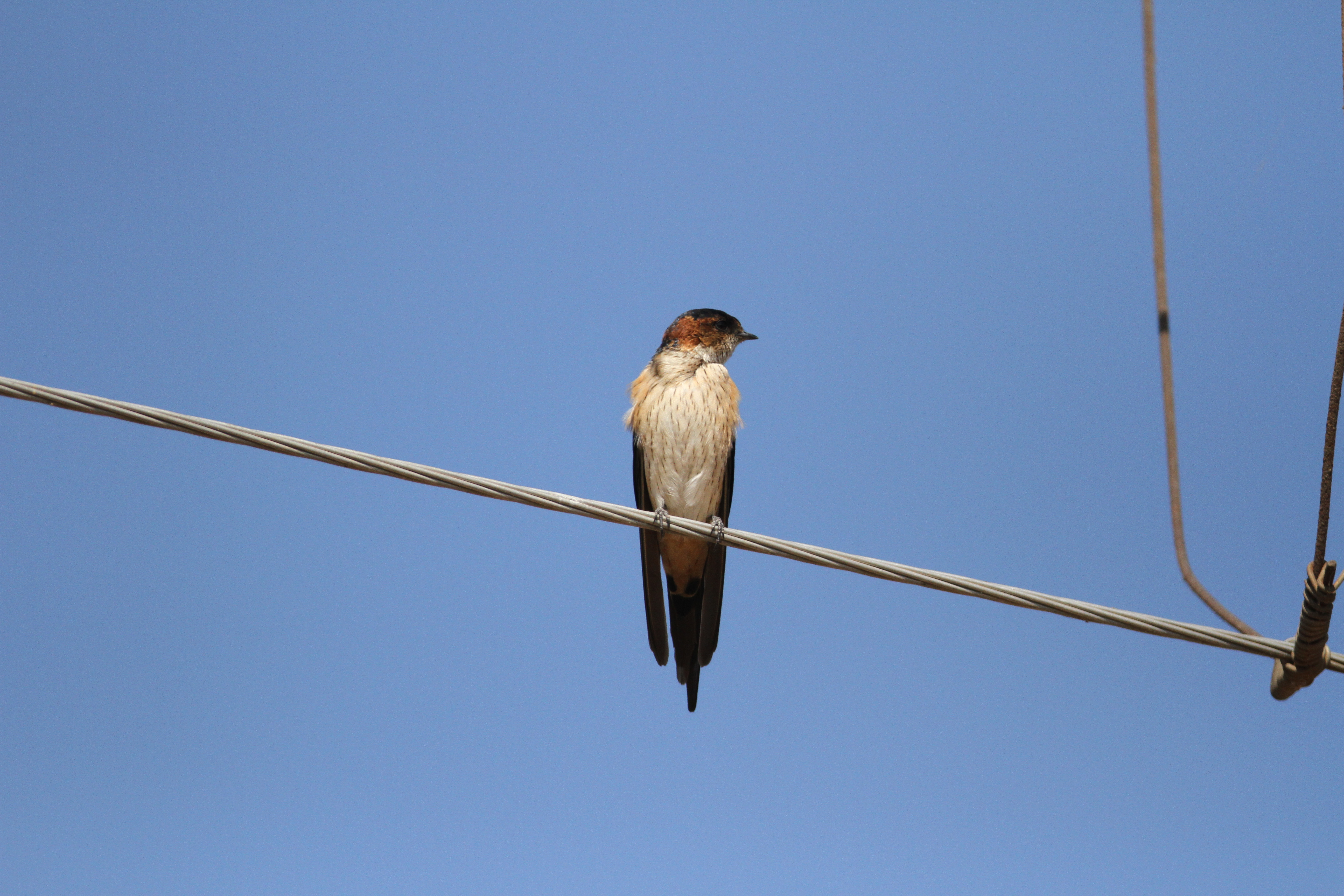 Birds of India